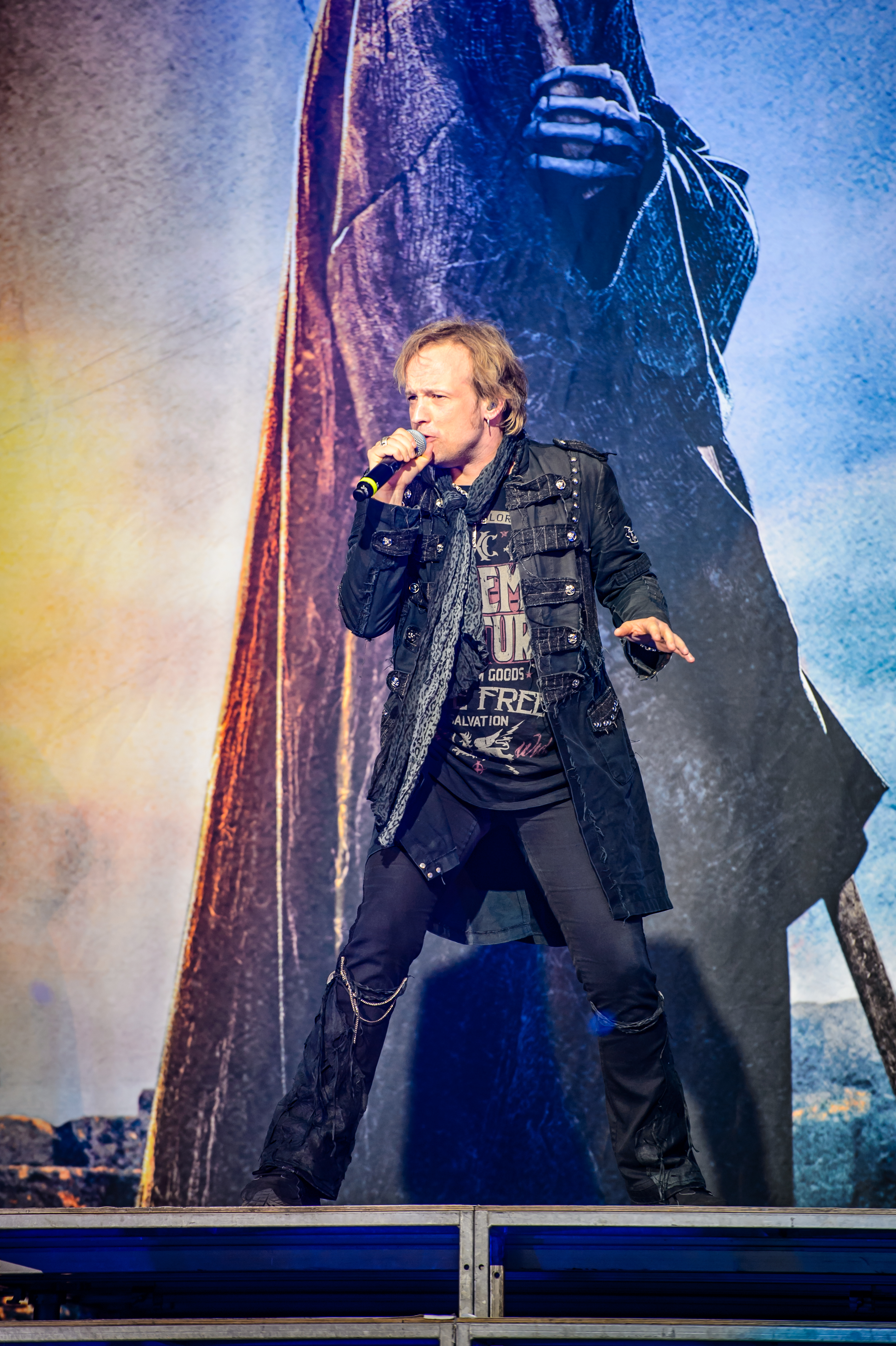 Avantasia; RockFels 2016 - Loreley